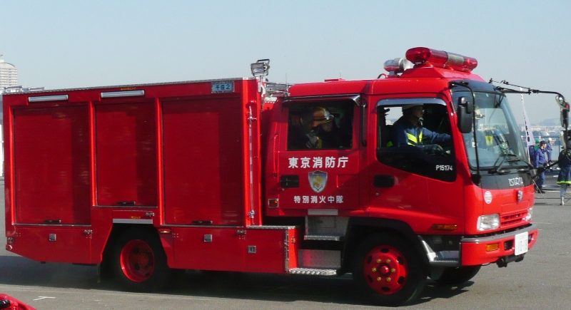 Isuzu Forward fire engine.